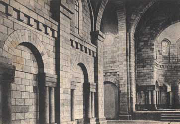 Interior view of the monastery chapel of the Soeurs de la Charité de la Providence in Heer-Maastricht, Netherlands. The chapel of Klooster Opveld was built in 1910 after a design by the young architect Theo van Kan who died shortly afterwards. Collection Dr. J.W.H. Goossens, CG 500-062, RHCL Maastricht.